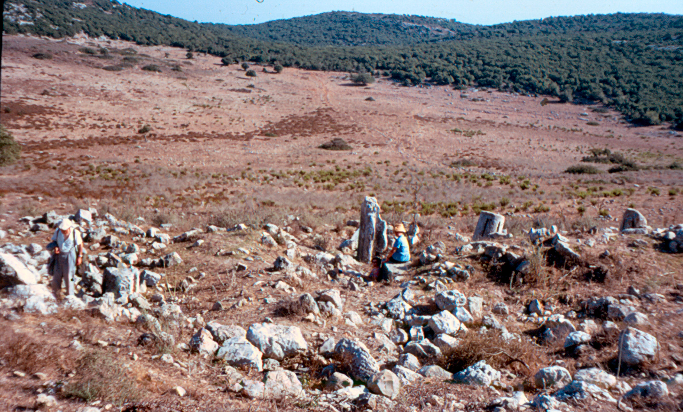 Old Synagogue at Hirbat_sumek